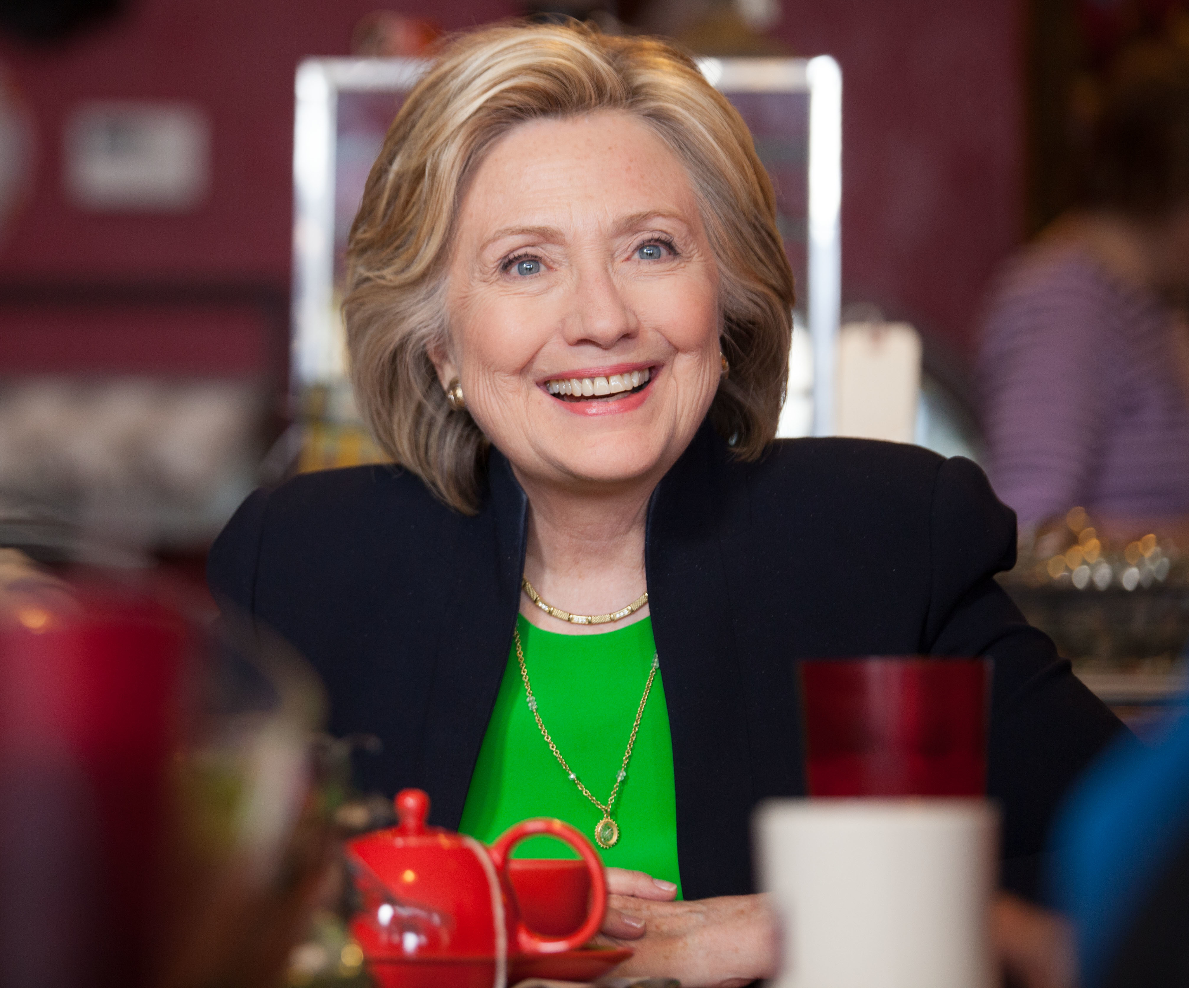 Hillary Clinton at an early campaign event in - Jones Street Java House in Le Claire, Iowa, April 2015